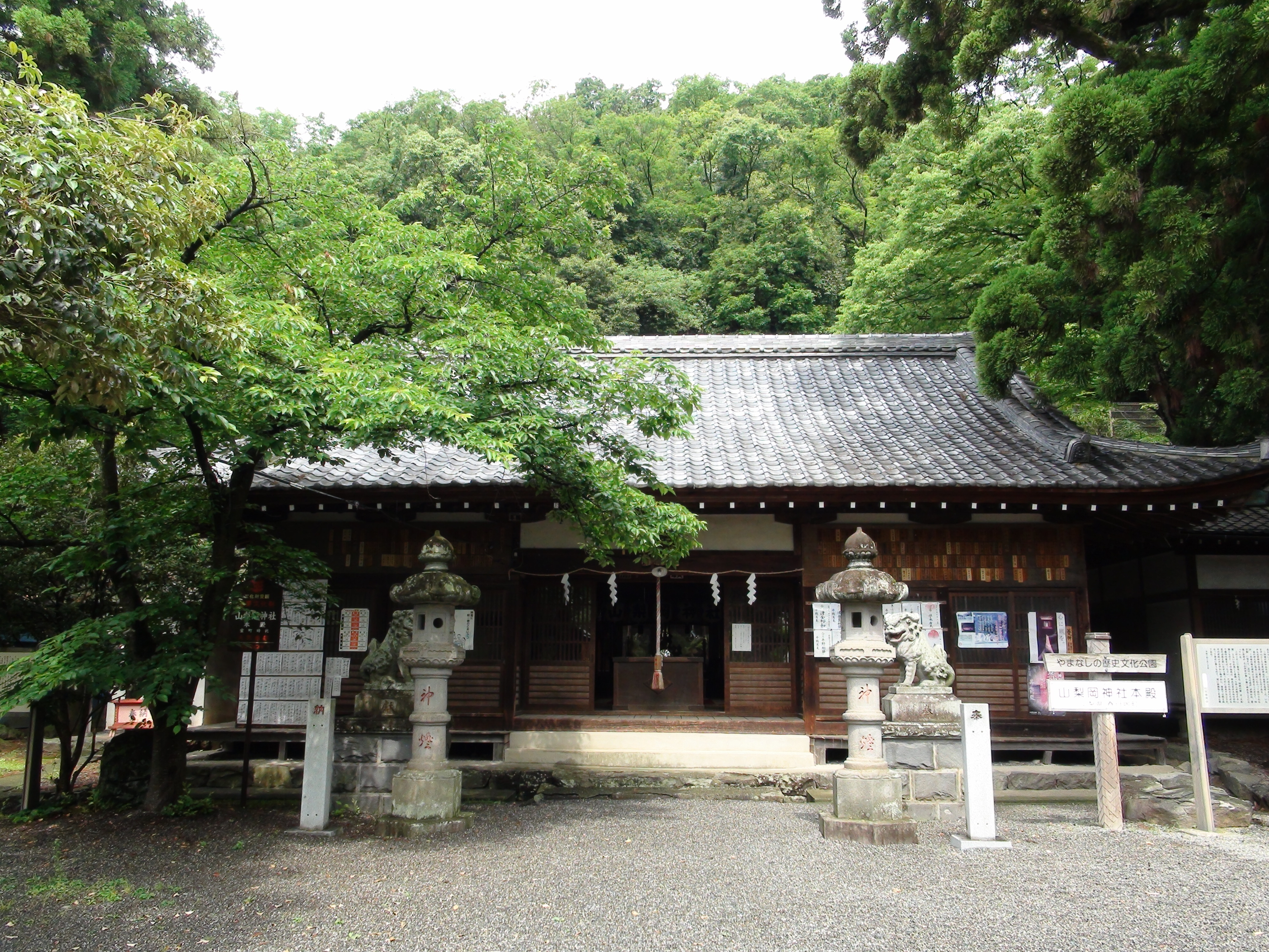 Yamanashi-oka shrine 1 Fuefuki city